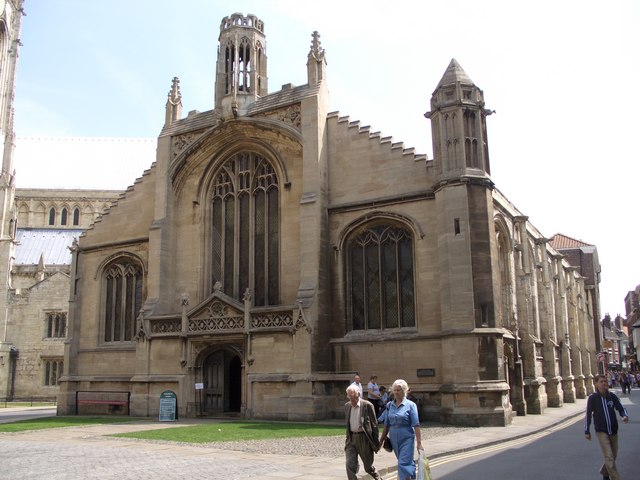 St Michael le Belfrey parish church, High Petergate, York, England, seen from the west